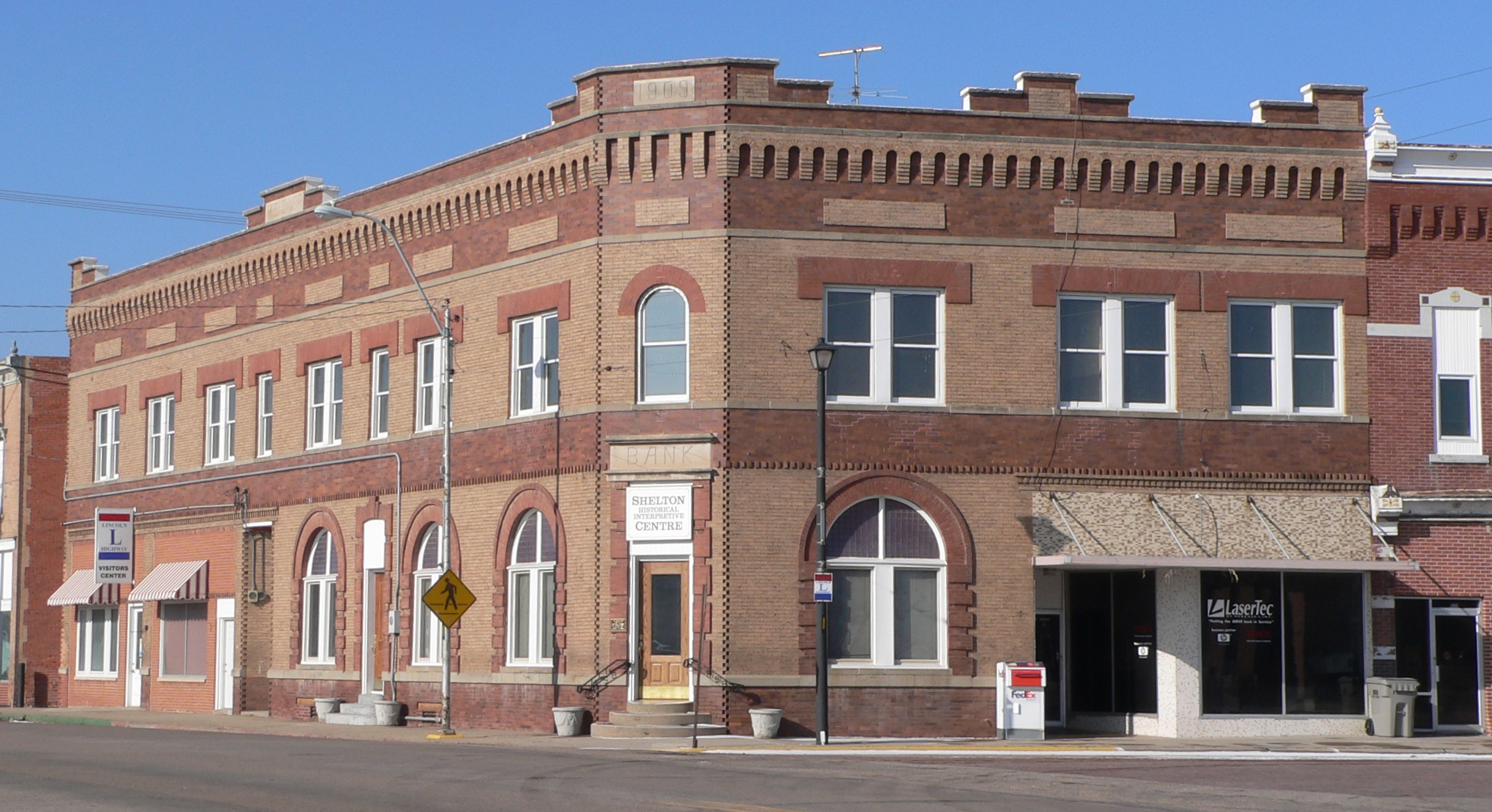 Shelton Historical Interpretive Center, formerly the Meisner Bank, at the corner of U.S. Highway 30 and C Street in Shelton, Nebraska; seen from the southeast. The Renaissance Revival building was constructed in 1909; it is listed in the National Register of Historic Places.